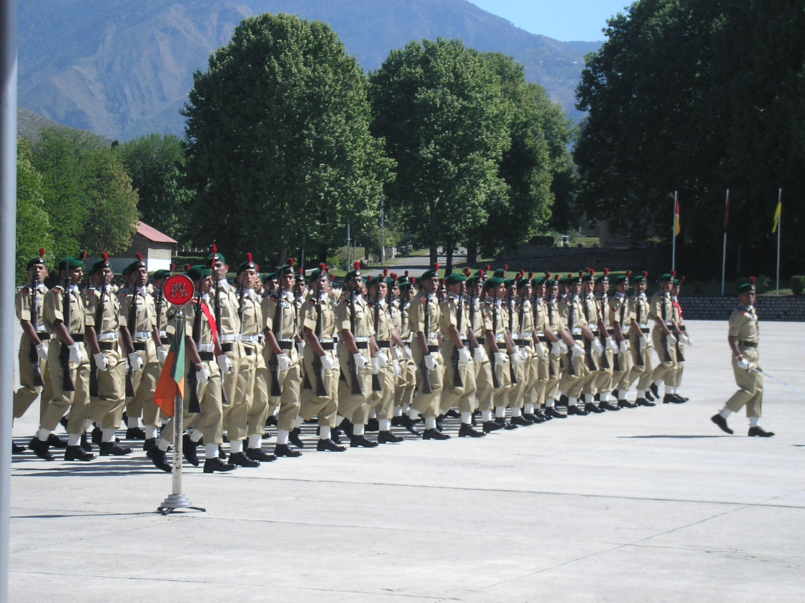 Kakul Academy passing out parade 2007